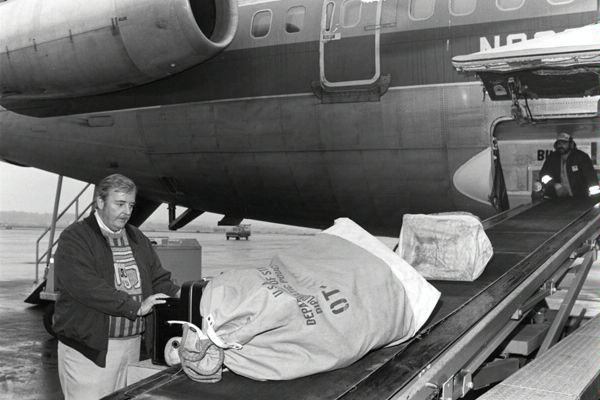 A DS diplomatic courier loads pouches at a Washington, D.C. airport. Diplomatic couriers spend tens of thousands of hours annually delivering tens of millions of pounds of classified diplomatic pouch material by air, sea, and over land, including palletized equipment for new embassy construction.